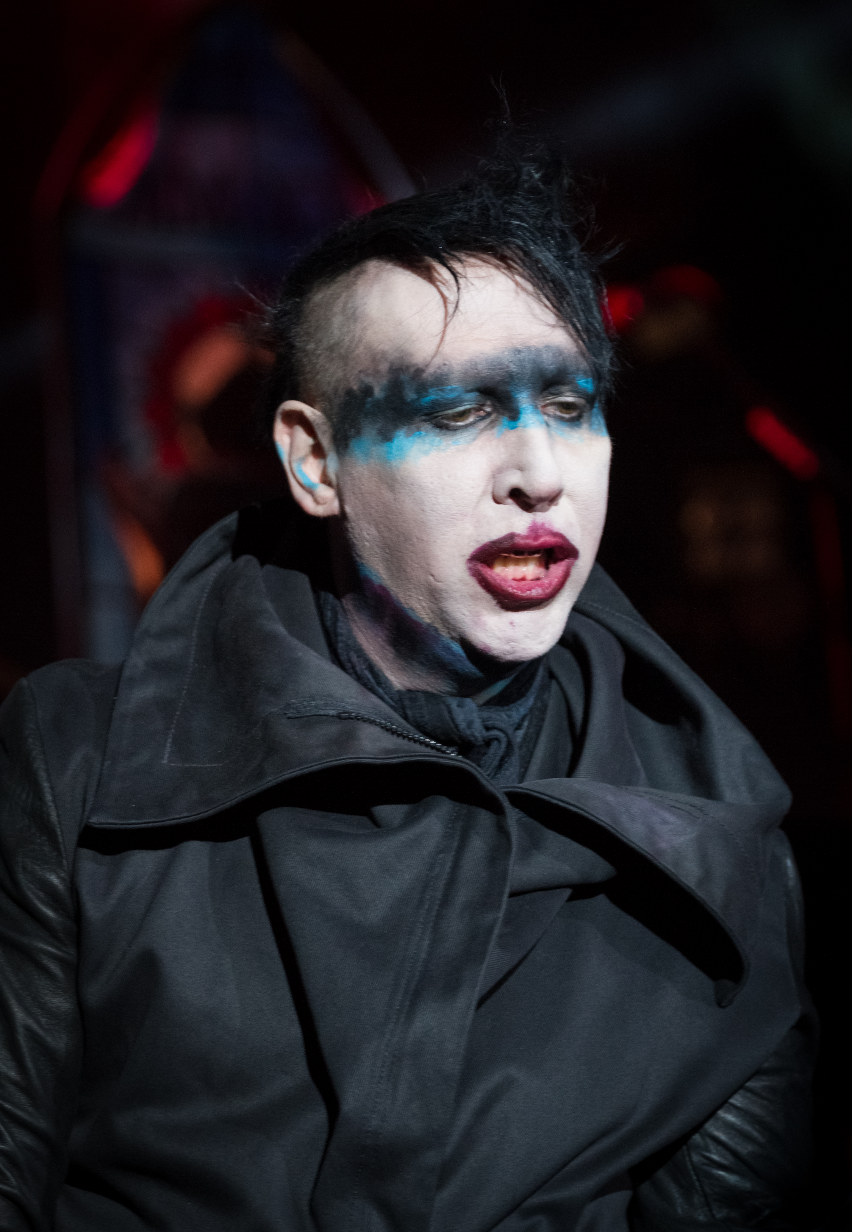 Marilyn Manson - Rock am Ring 2015